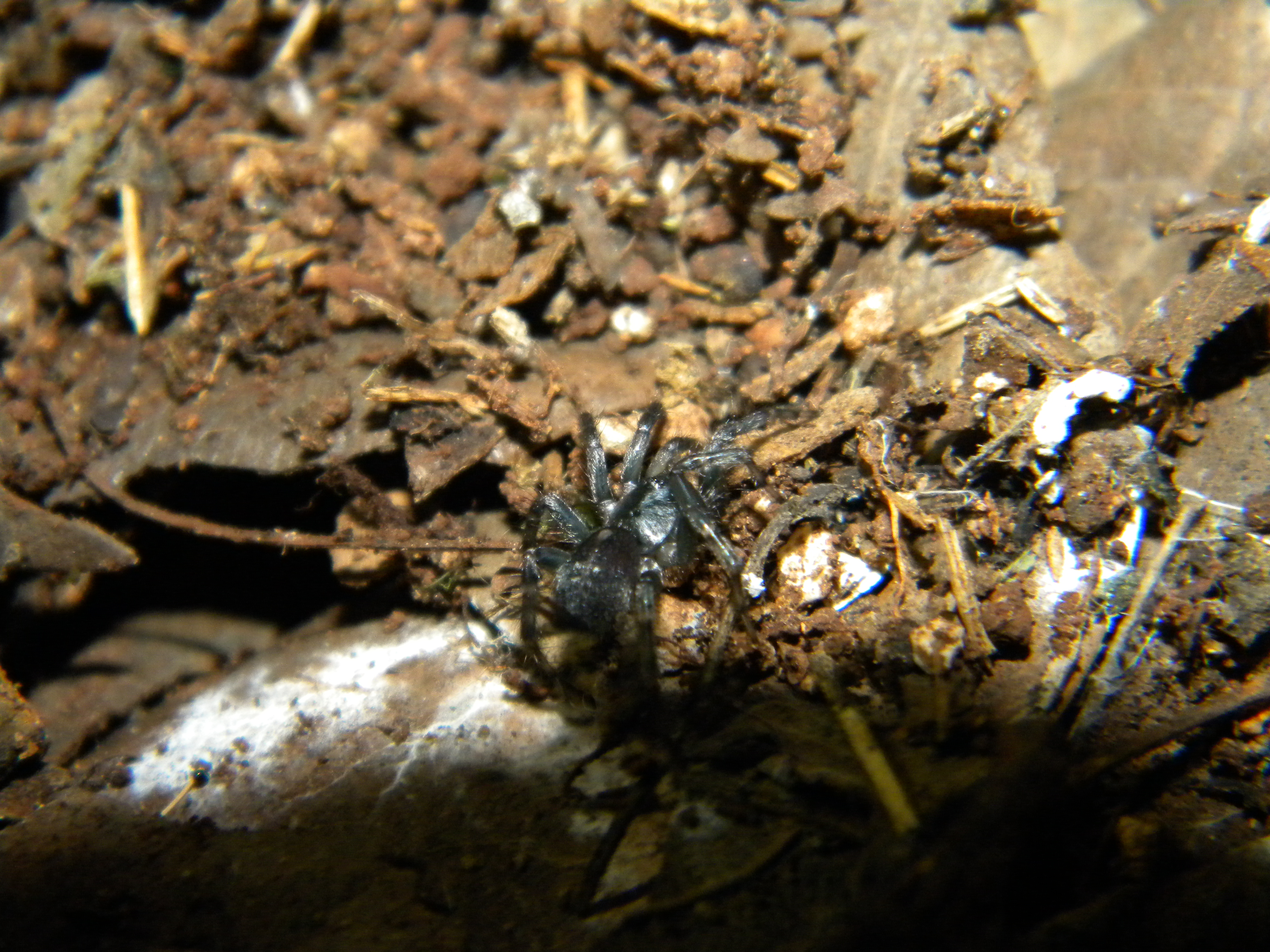 Ischnothele caudata